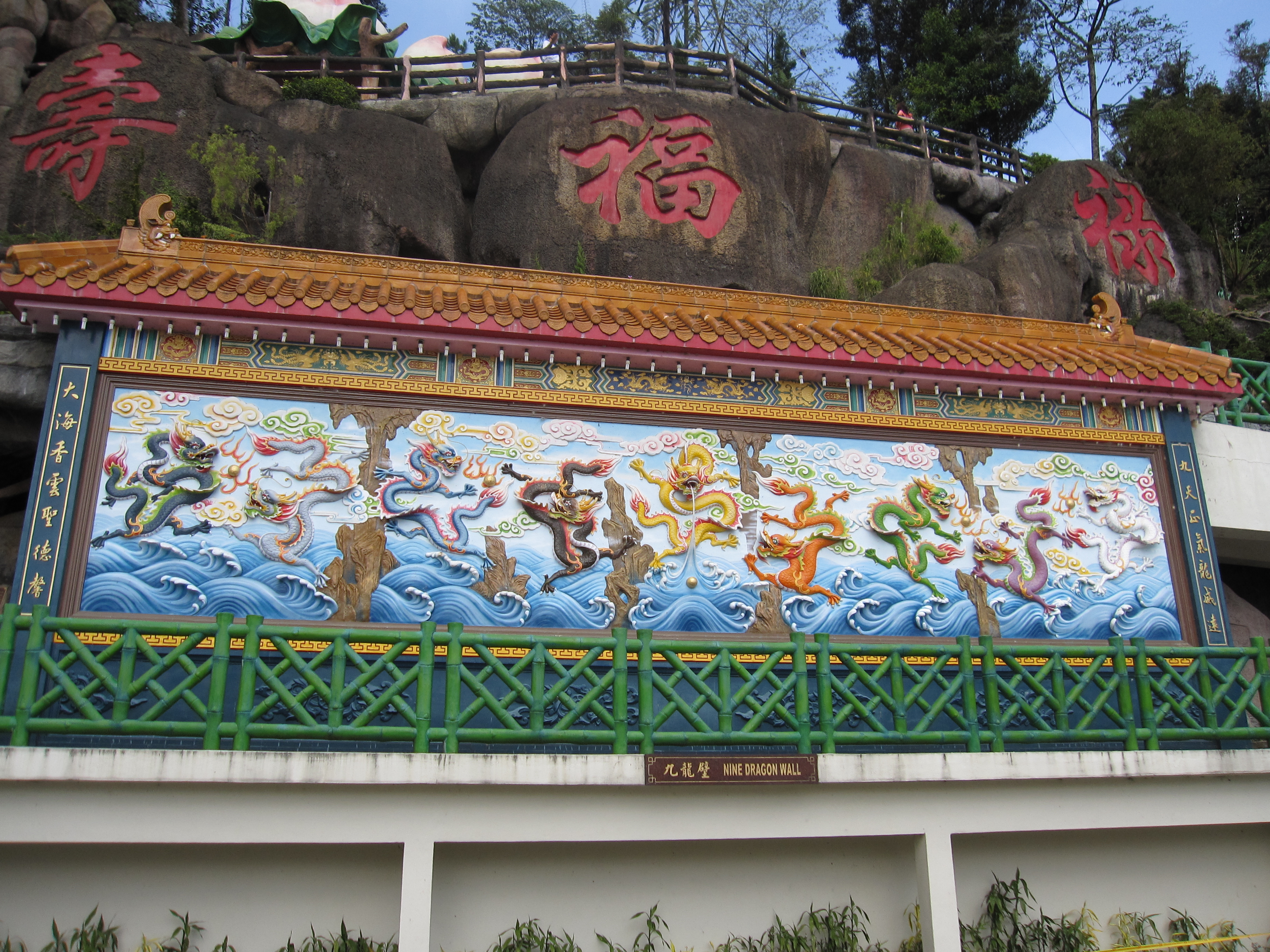 Chin Swee Caves Temple in the Genting Highlands, Kuala Lumpur.